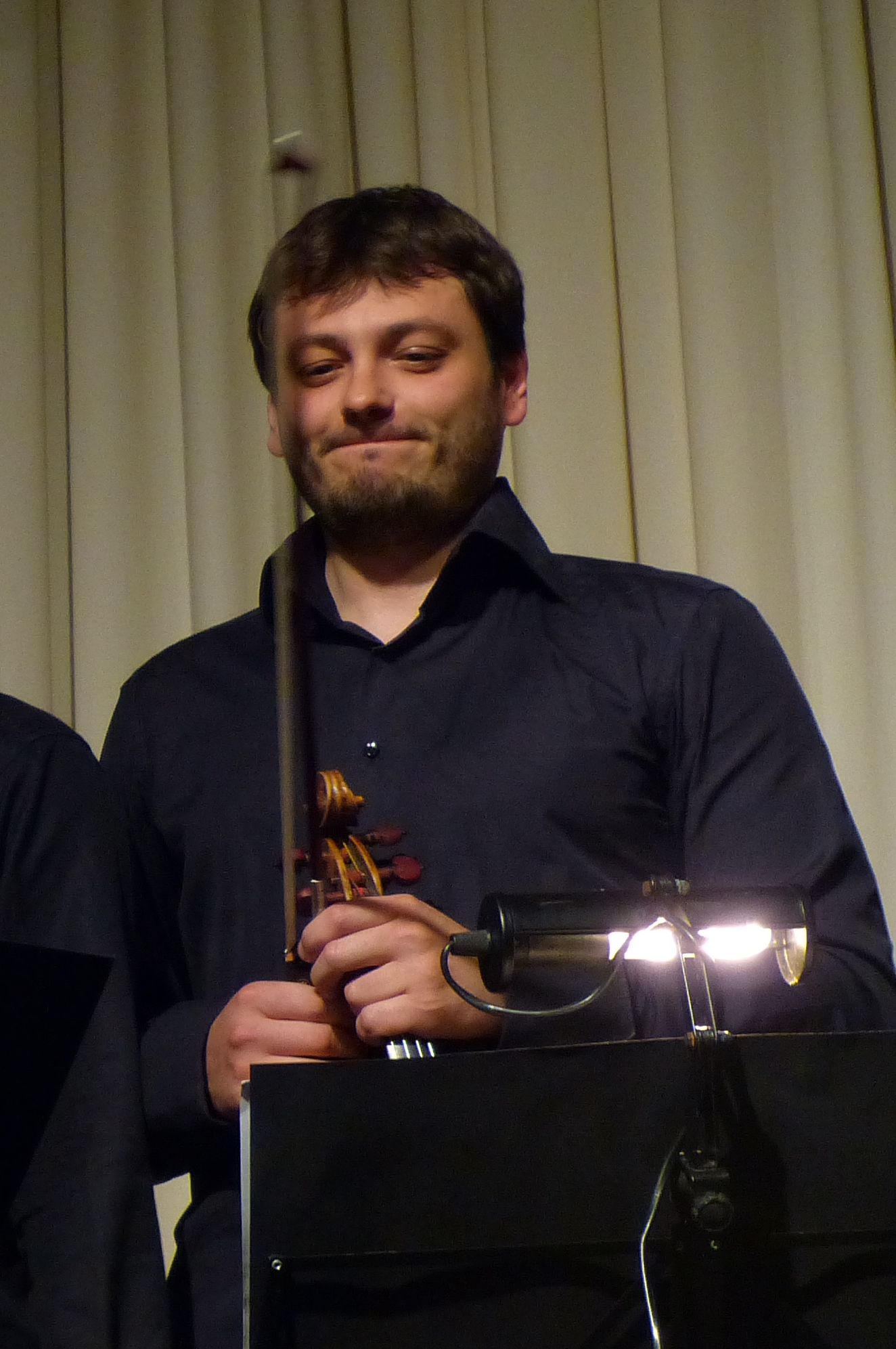 Maxim Rysanov at a concert in June 2012